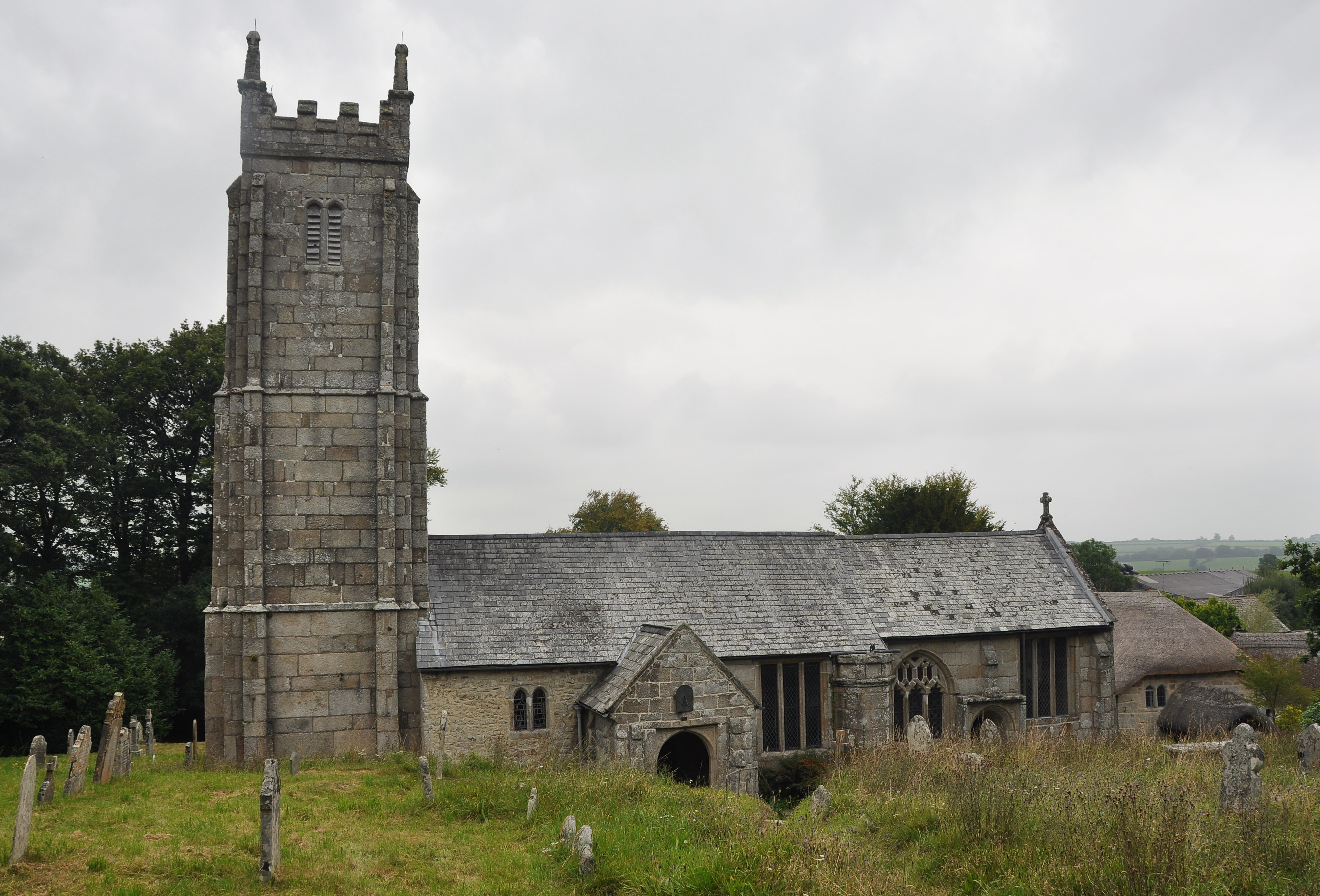 Throwleigh parish church in eastern Dartmoor.